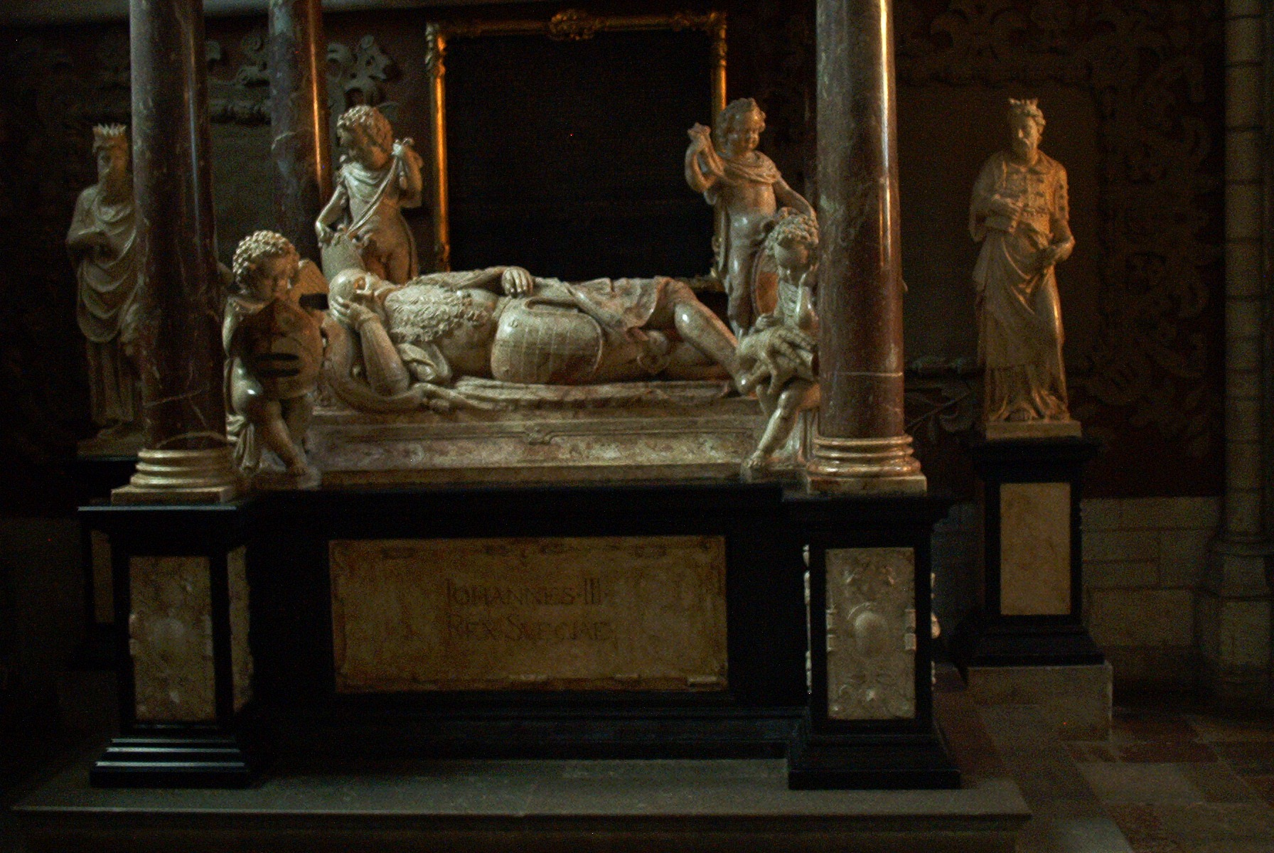 Uppsala Cathedral, Willem van den Blocke, tomb of King John III of Sweden.